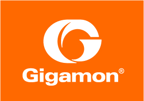 Gigamon company logo.